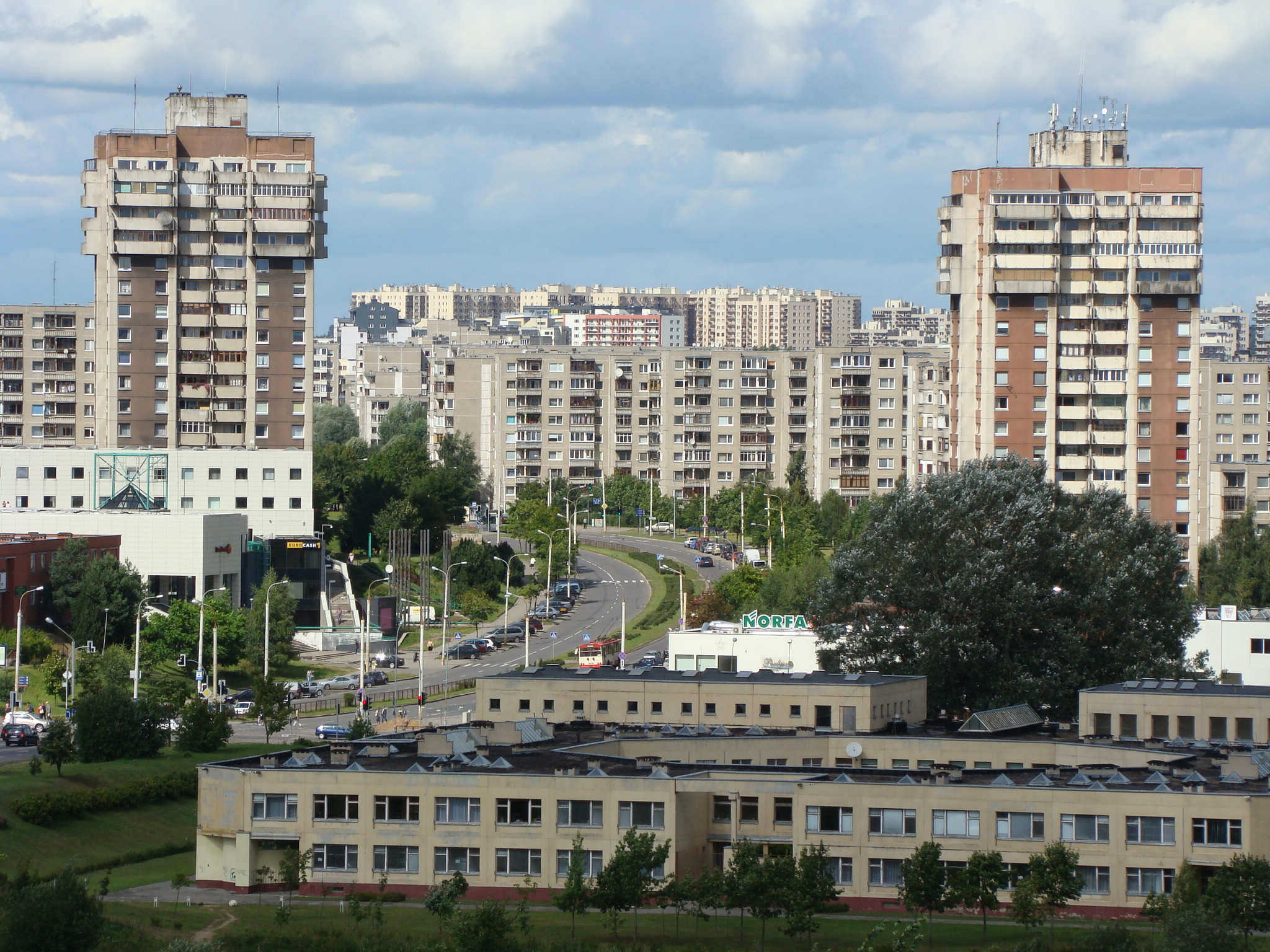 Urban view in Justiniškės, Vilnius